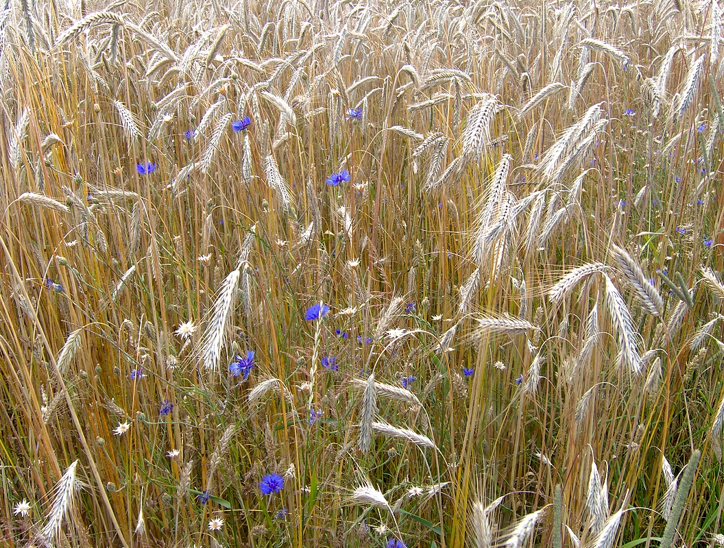 Flowers in the grain field